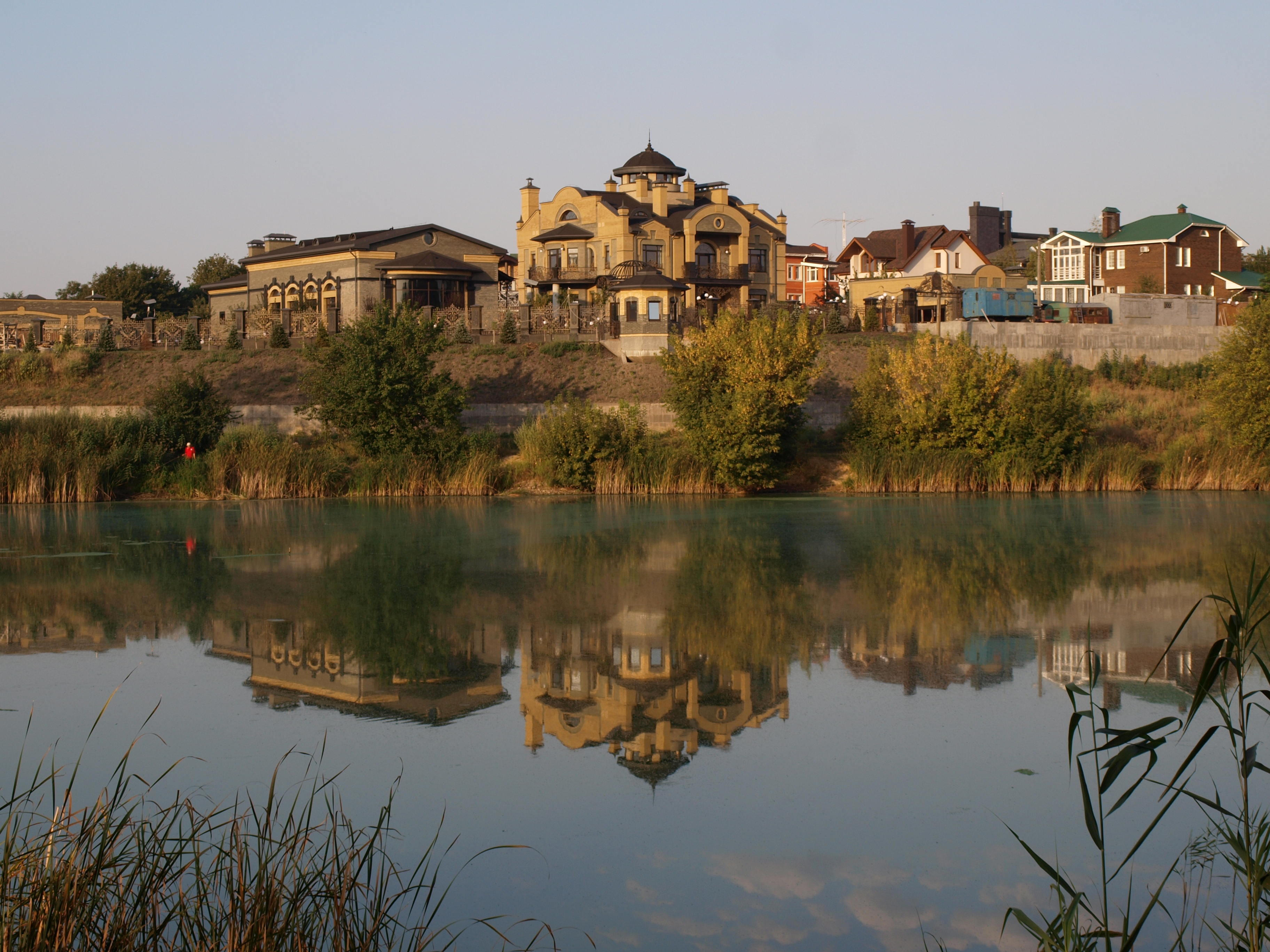 The pond near Pushkarivka (Polovky) in Poltava